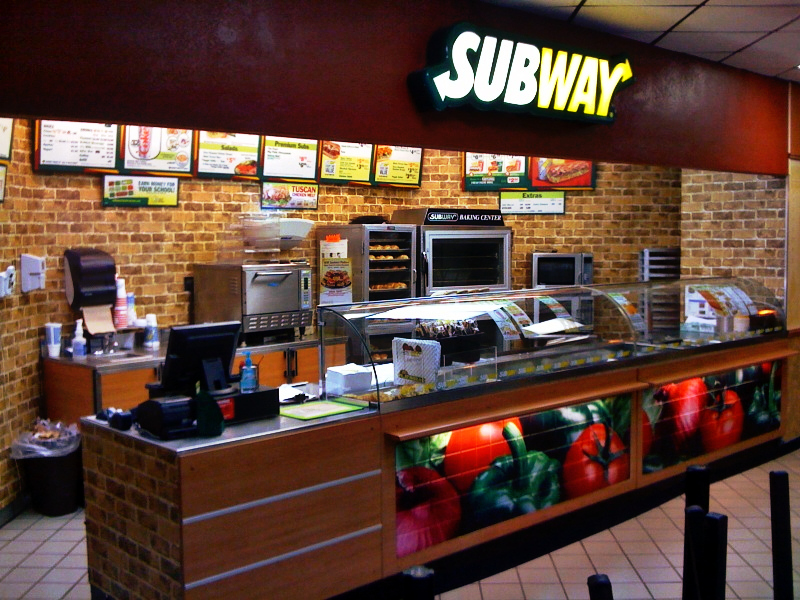 A SUBWAY restaurant in Dawson, Texas.